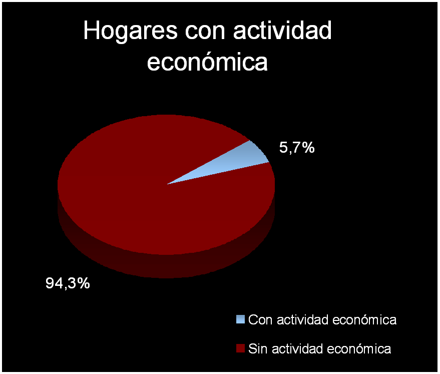 Barranquilla - Houses with economic activities